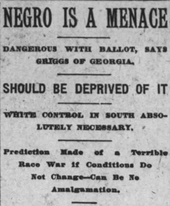 The Nebraska State Journal. Apr 1908.